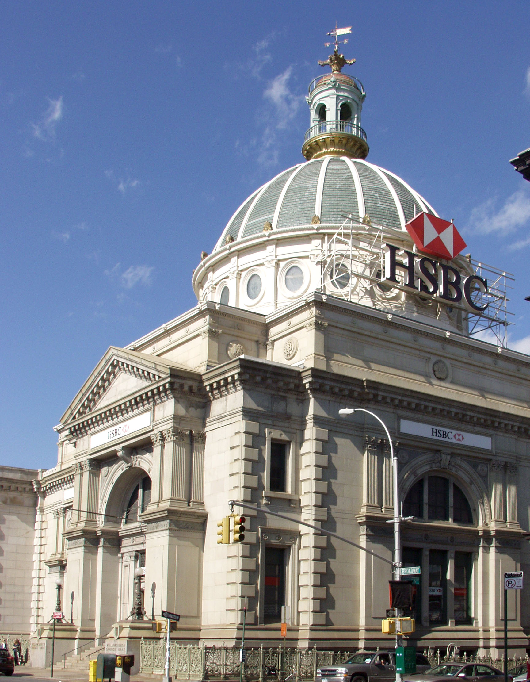 Looking northwest across Driggs Avenue and Broadway at Williamsburgh Savings Bank on a sunny midday. See File:Wmbgsavingdome5bbtjeh.JPG for a cloudier day.